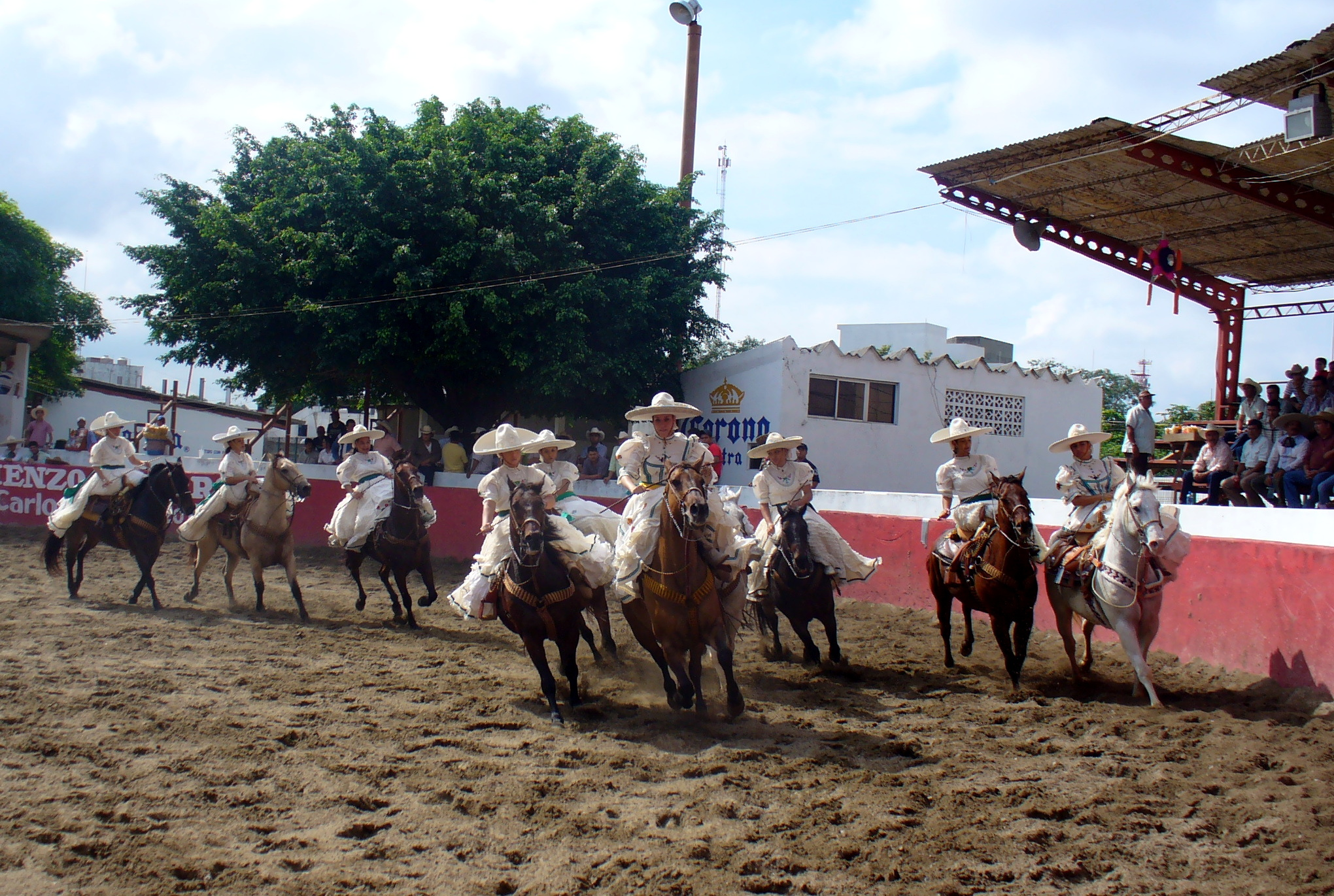 Escaramuzas Charras realizando trenza